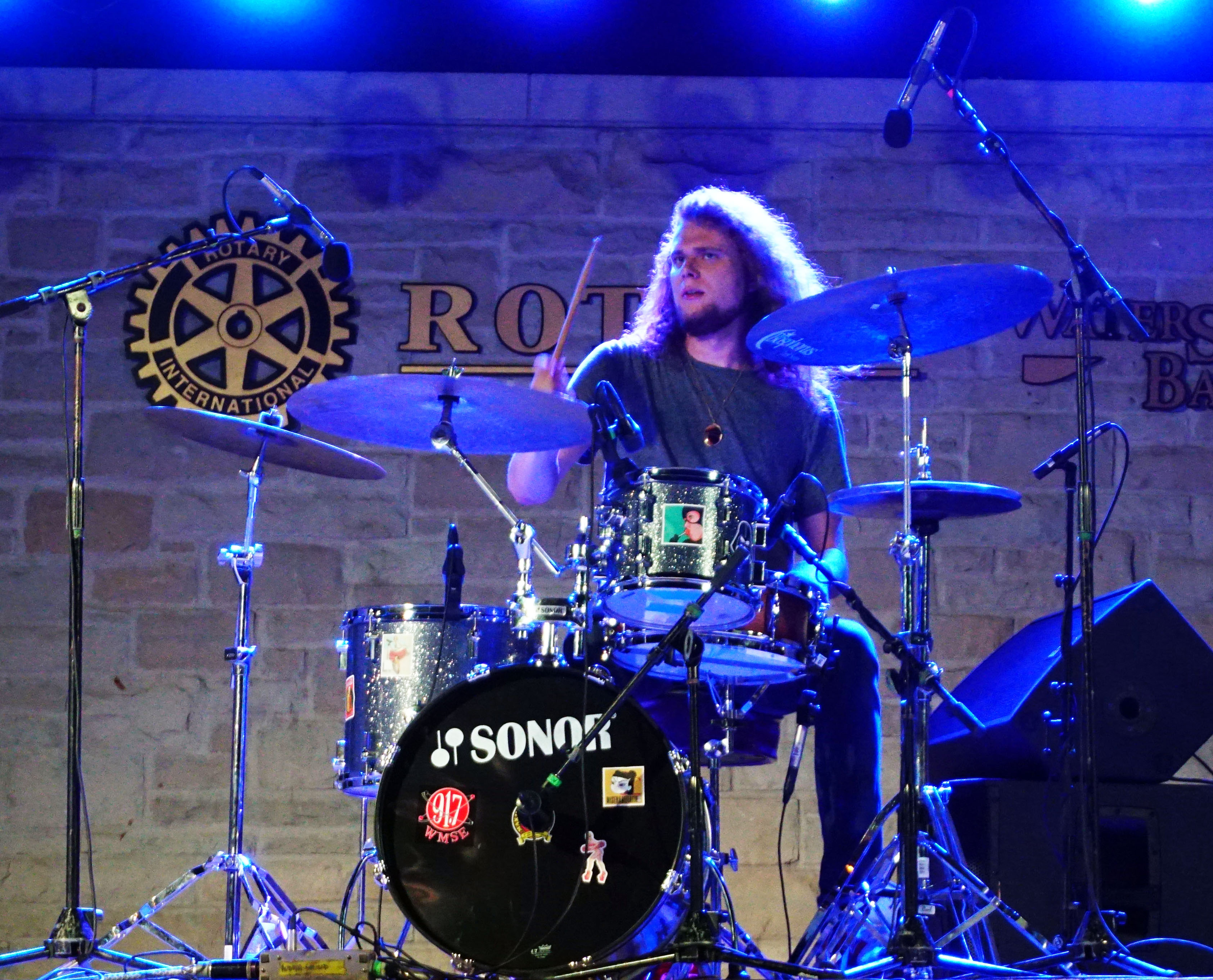 Dyland Koch playing in Wisconsin Septemebr 8, 2018